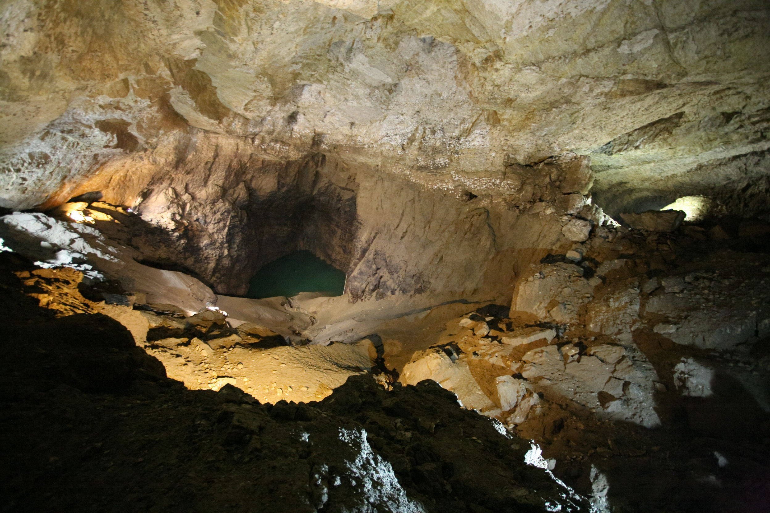 New Athos